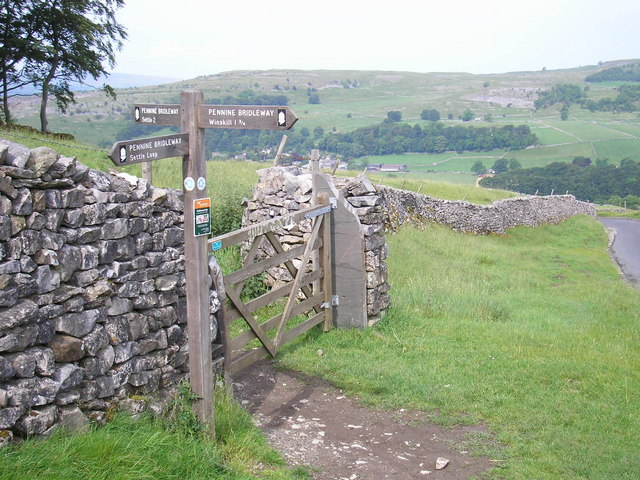 Bridleway junction Just above Langcliffe the Settle Loop of the Pennine Bridleway leaves the main route.